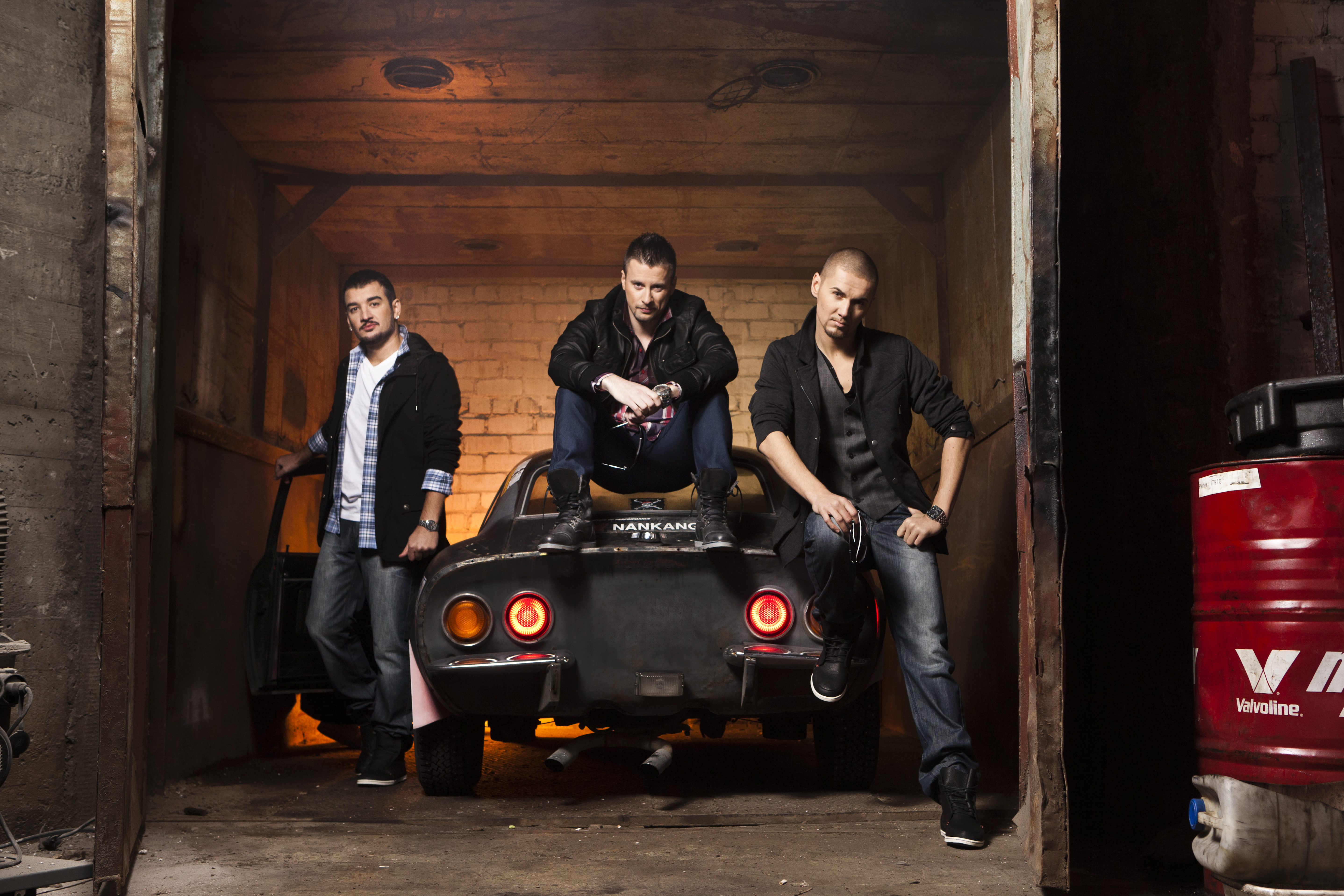 Soul Militia, 2012 (Kaido Põldma, Semy Morgun & Lauri Pihlap)